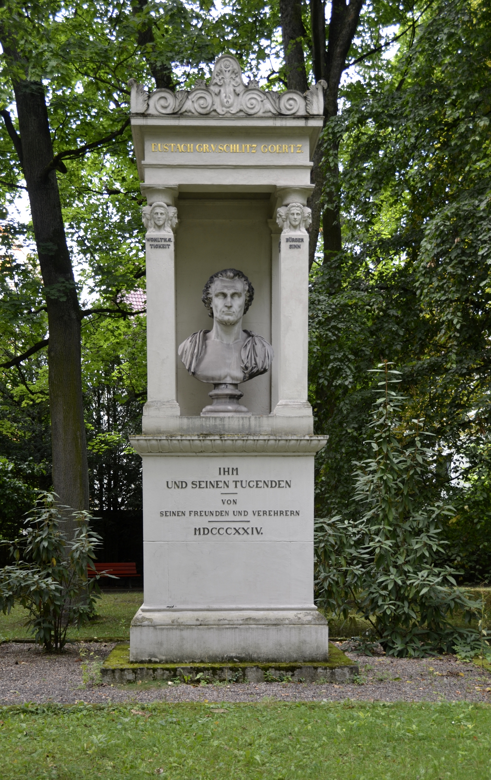 The memorial for Johann Eustach von Görtz in Regensburg.